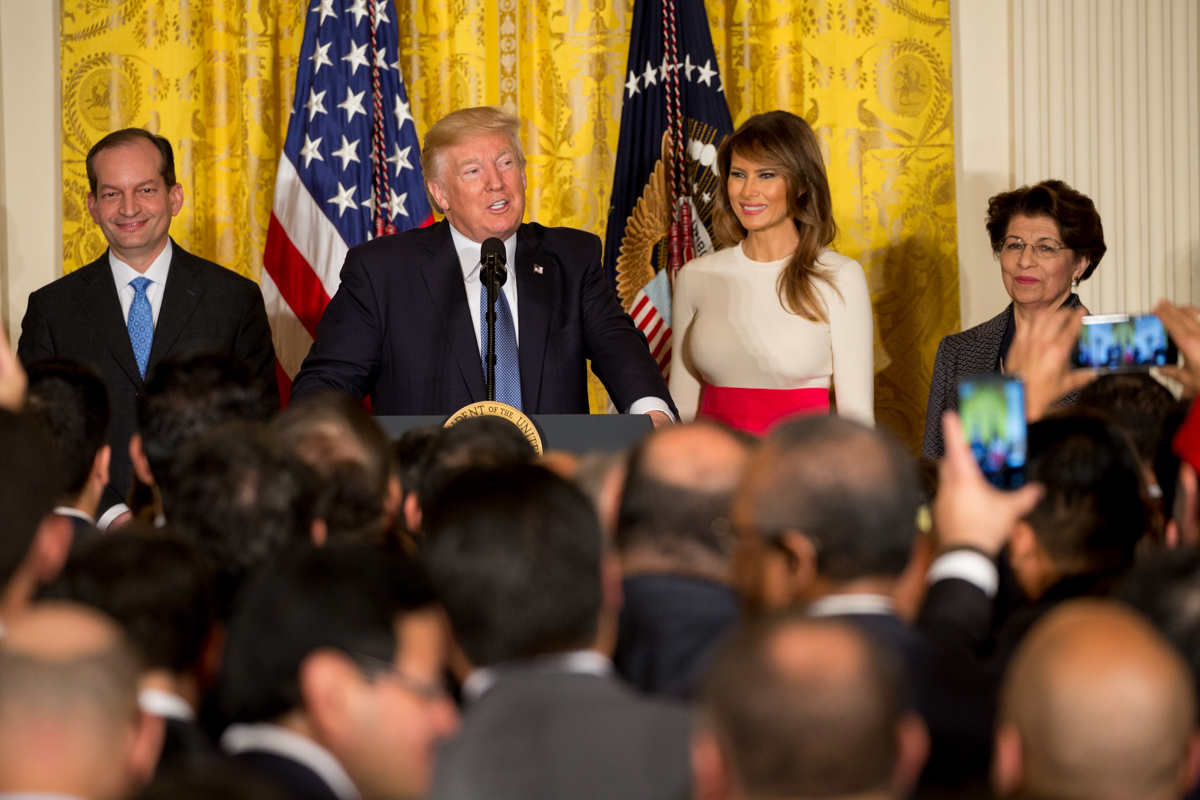 President Donald J. Trump and First Lady Mrs. Melania Trump participate in the Hispanic Heritage Month Event in the East Room of the White House Friday, October 5, 2017, in Washington, D.C. (Official White House Photo by Shealah Craighead)